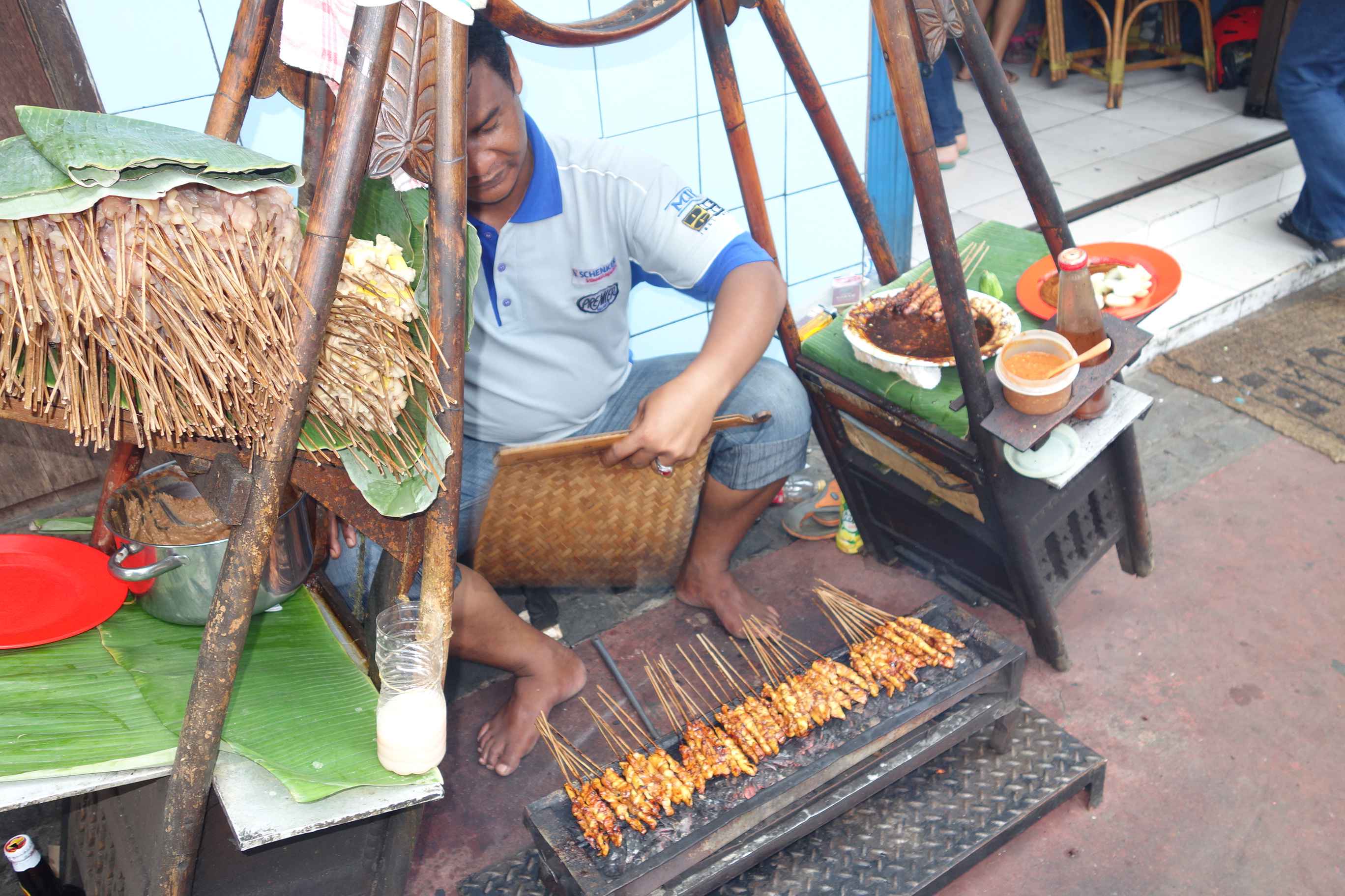 Chicken sate vendor in Central Jakarta